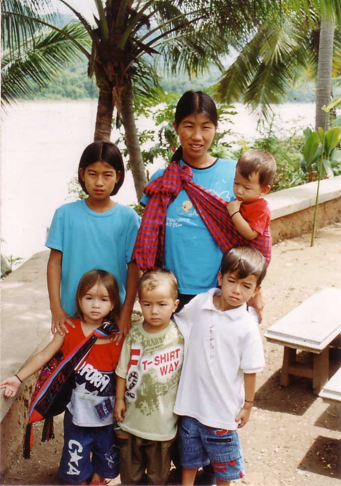 Lamprabang, Laos. Photo of my family